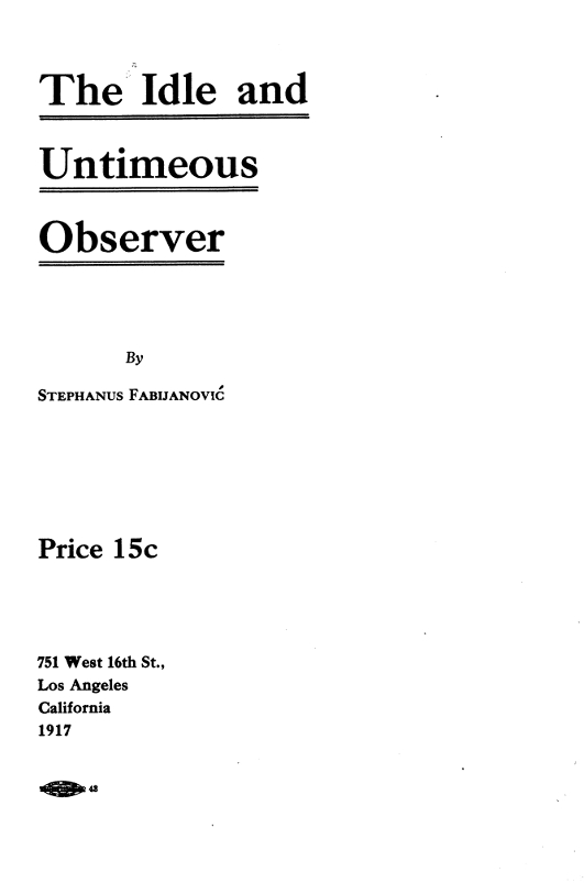 "The Idle and Untimeous Observer", Stephanus Fabijanovic (1917)